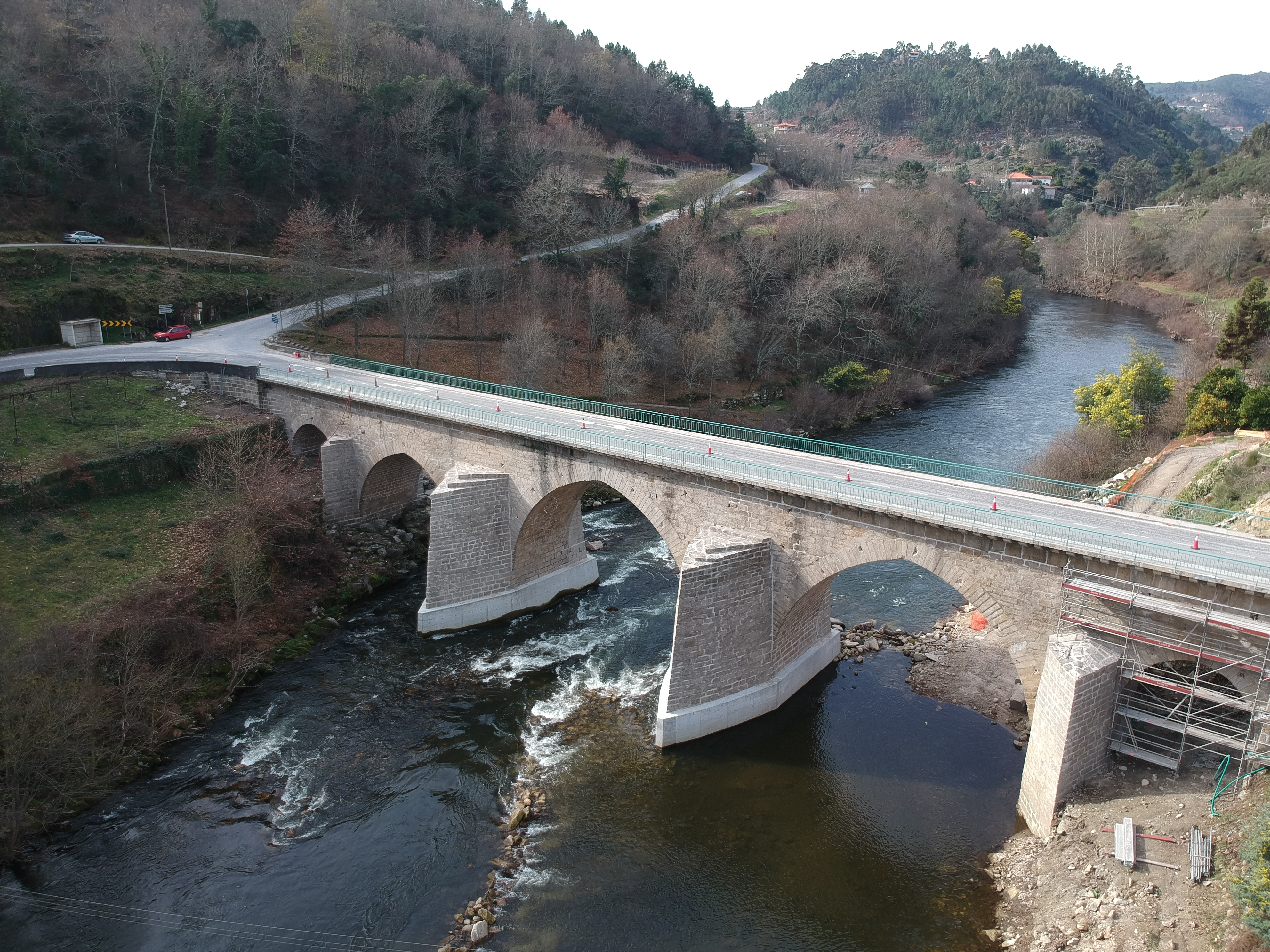 Cavez Bridge, Cabeceiras de Basto, Portugal